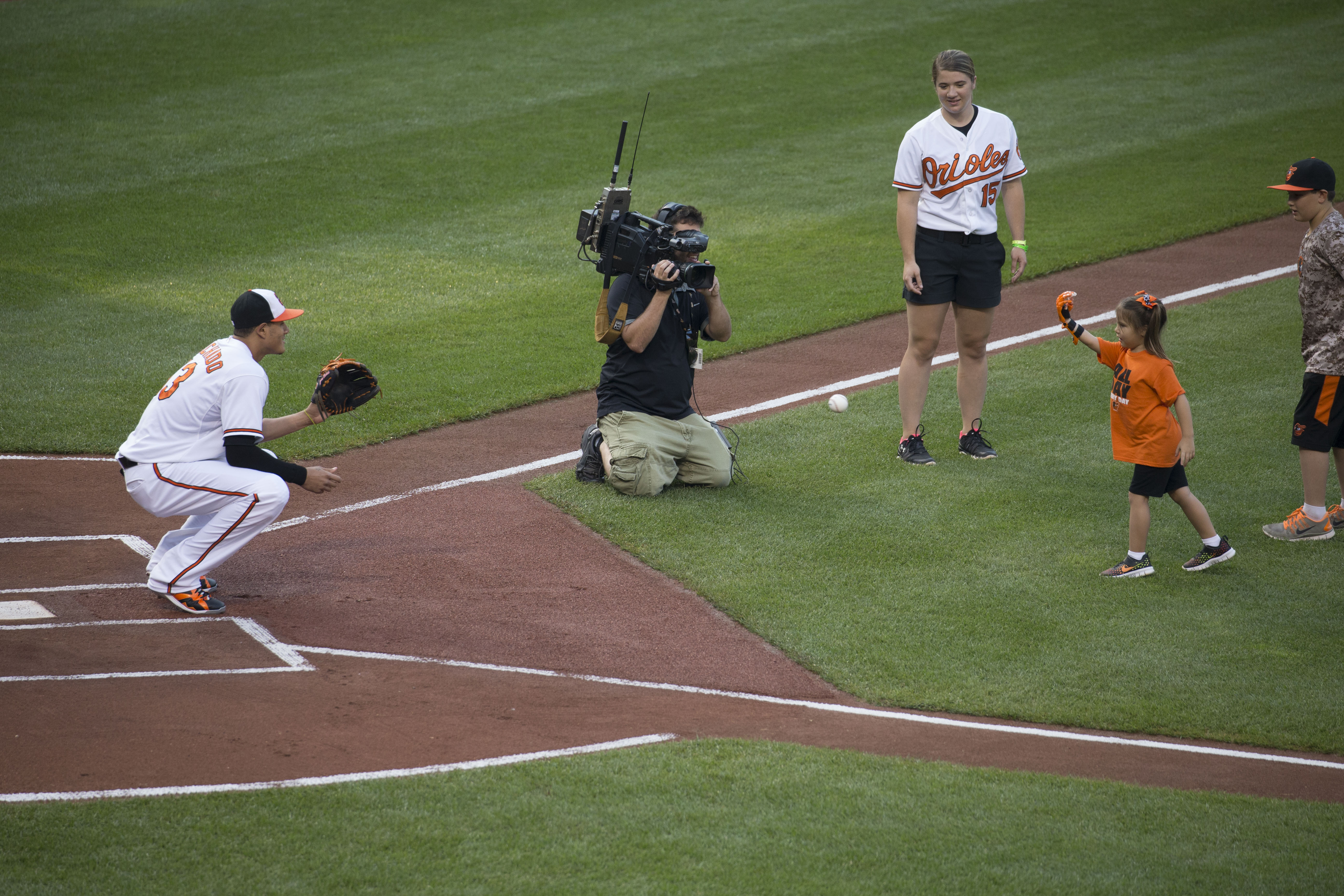 Hailey Dawson uses her 3D-printed robotic hand to throw out the first pitch to Manny Machado at an August 17, 2015 game at Oriole Park.